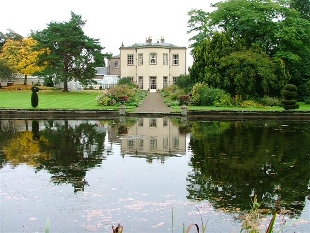 Thorp Perrow House. Not part of the arboretum but viewed from it across the lake.